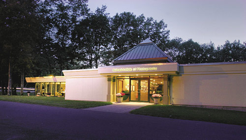 Photograph of the Administrative Office Building at Hallmark Institute of Photography taken at dusk looking southwest. The building is located at 241 Millers Falls Road, Turners Falls, MA 01376